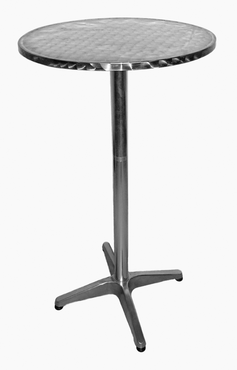 Standing table.